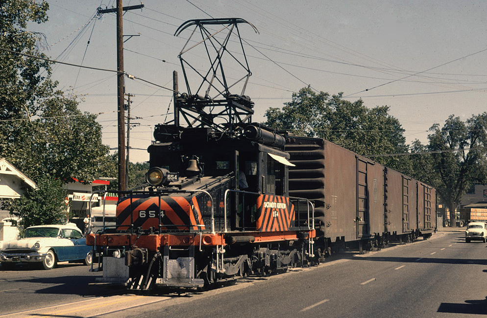 Sacramento Northern electric locomotive #654 hauling a train on Plumas St., Yuba City, CA, August 1964